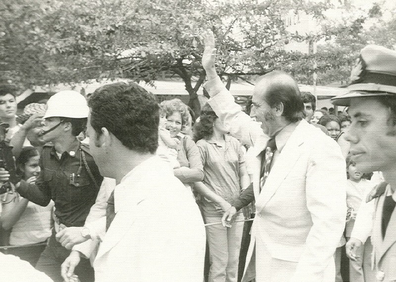 Venezuelan president Carlos Andrés Pérez in 1975